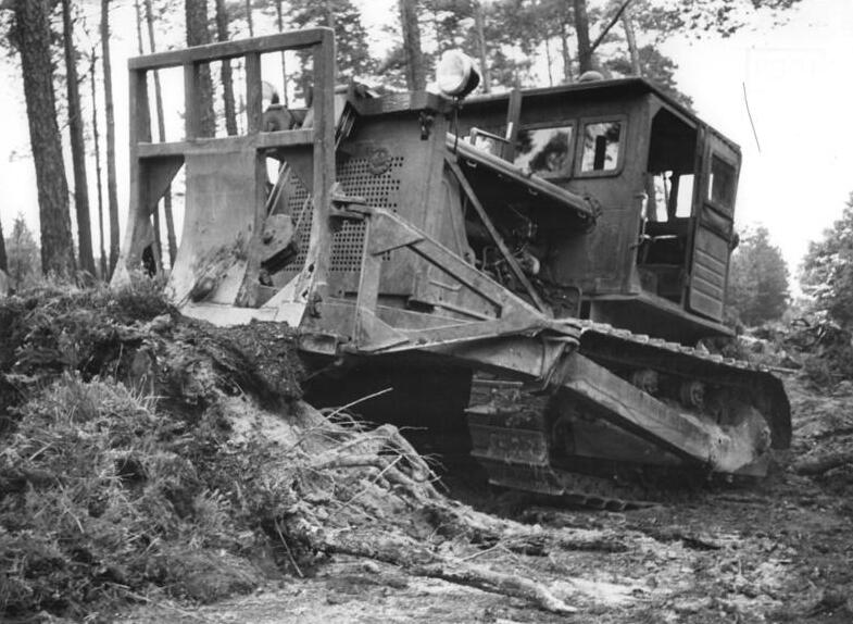 GDR 1955, construction works for the lignite-combine "Scharze Pumpe". "..." original caption reads: "A soviet root-extraction-machine of VEB Potsdam is working on the bicycle lane Spremberg-Hoyerswerda"